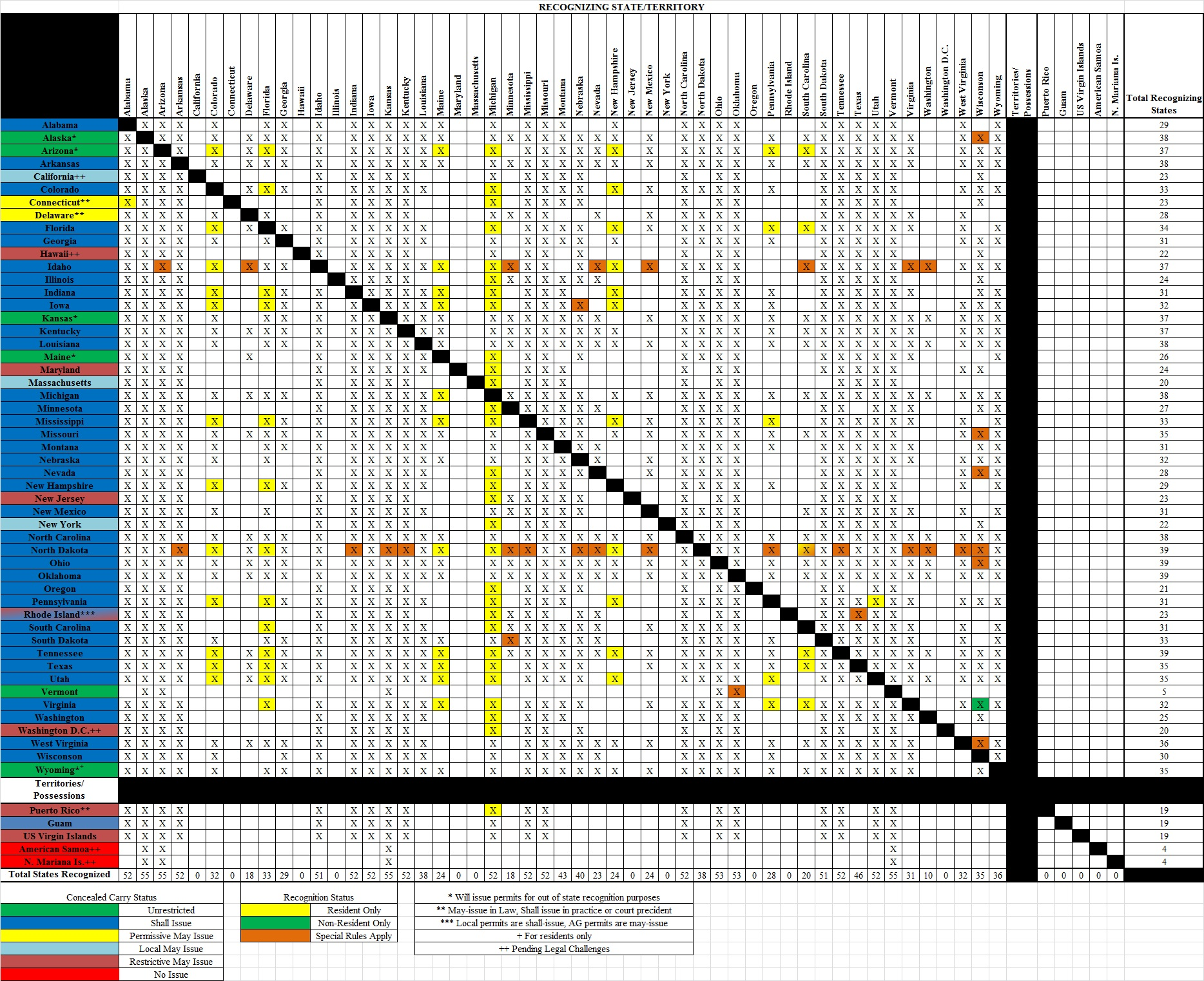 Conceal/Carry Permit Recognition by State, summarized from and as well as various state government websites.